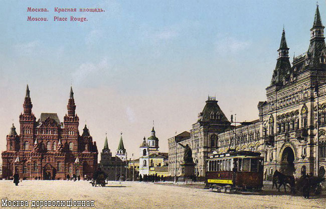 pre-revolutionaty russian postcard of Red Square in Moscow